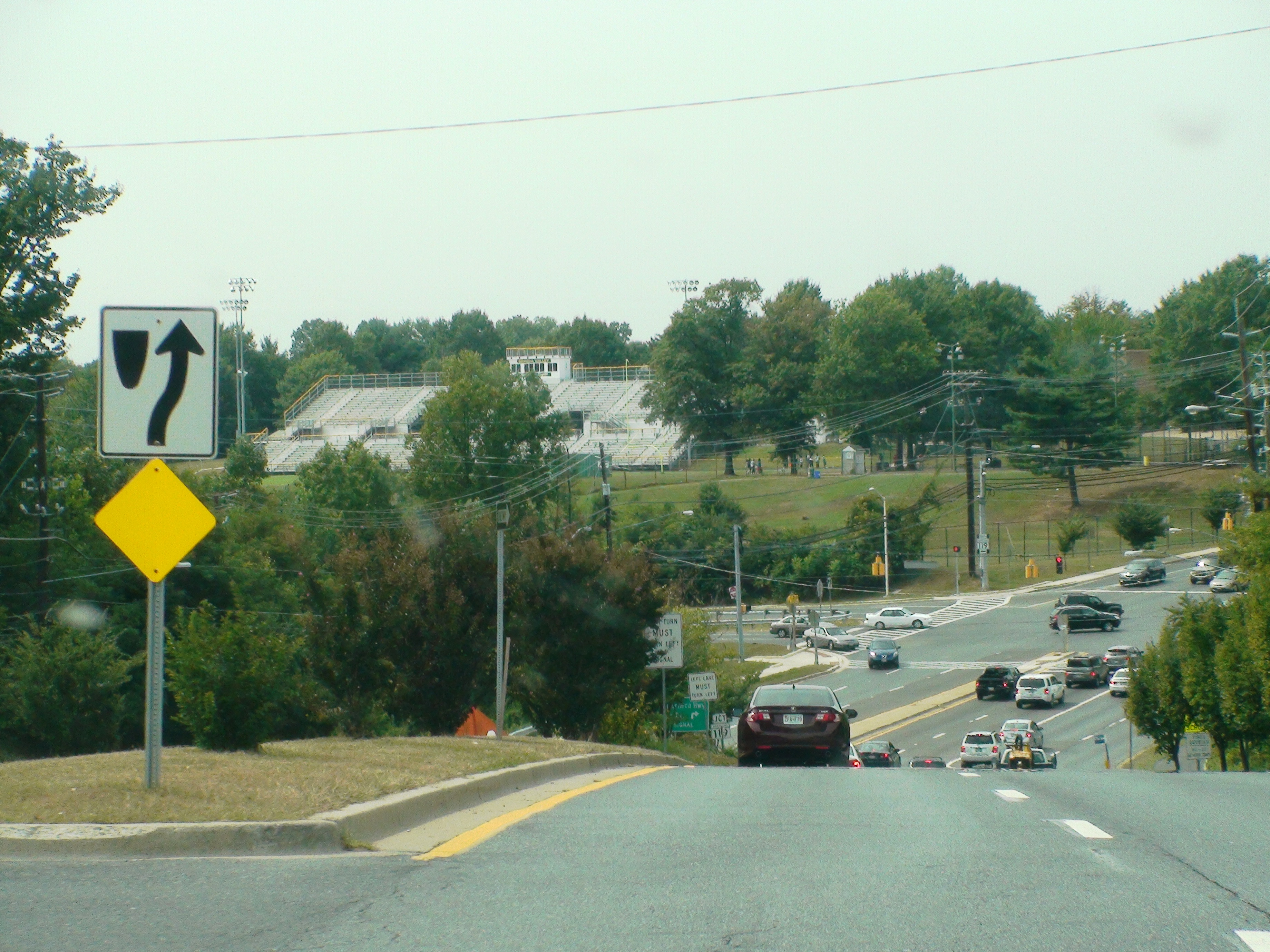 Westbound Middlebrook Road at the intersection of Ridgecrest Drive, in Germantown, Montgomery County, Maryland, at 1:27 p.m. (EDT) on September 9, 2013. Seneca Valley High School (SVHS) and its football field can be seen in the background. Photograph taken on September 9, 2013, in Germantown, Montgomery County, Maryland, with a Sony HDR-SR11 camcorder, by Illegitimate Barrister.